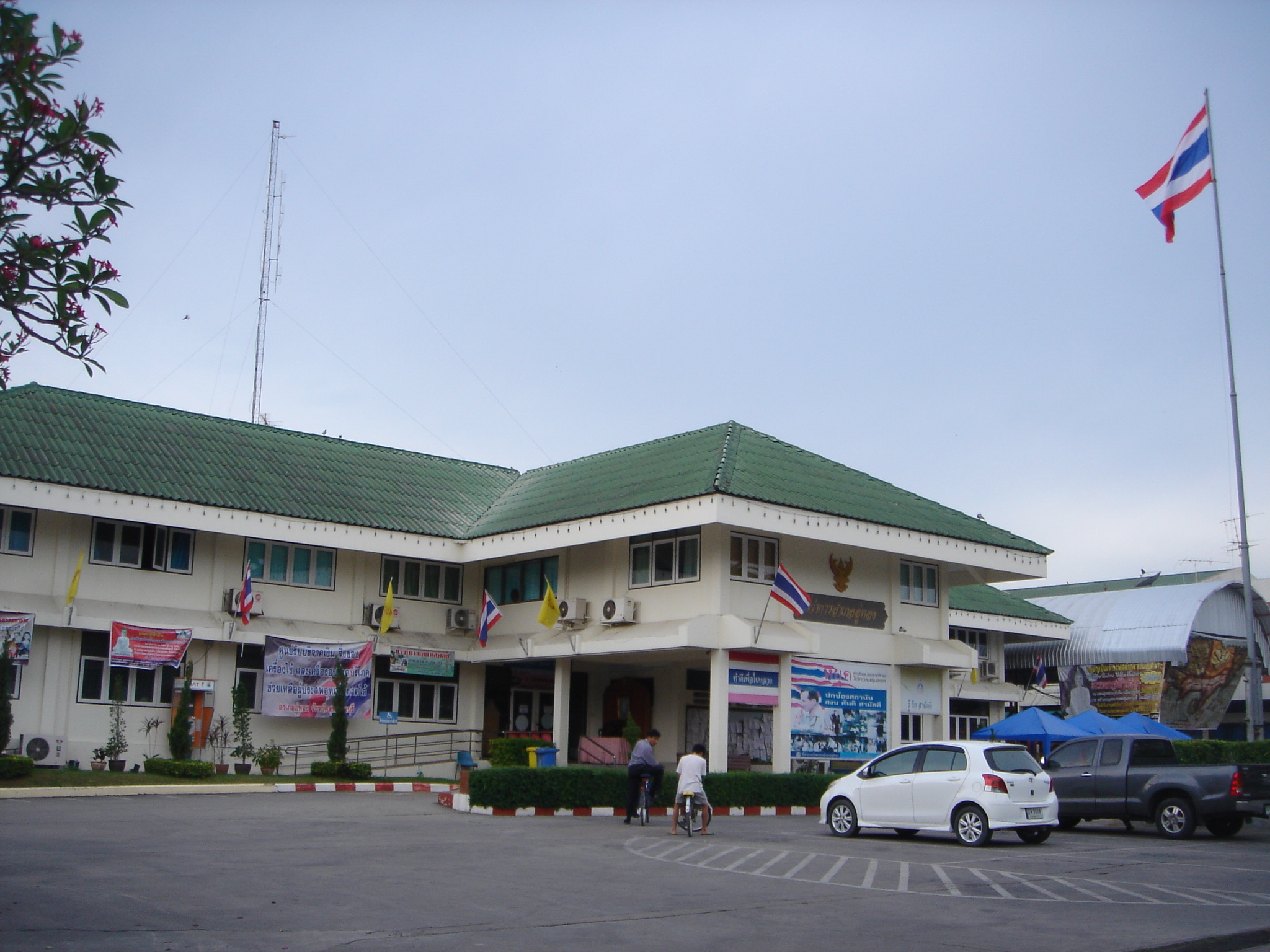 District office, District U Thong, Suphanburi, Thailand